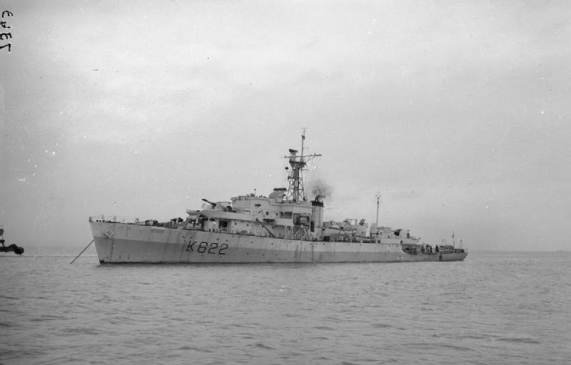 Photograph of British frigate HMS Burghead Bay.